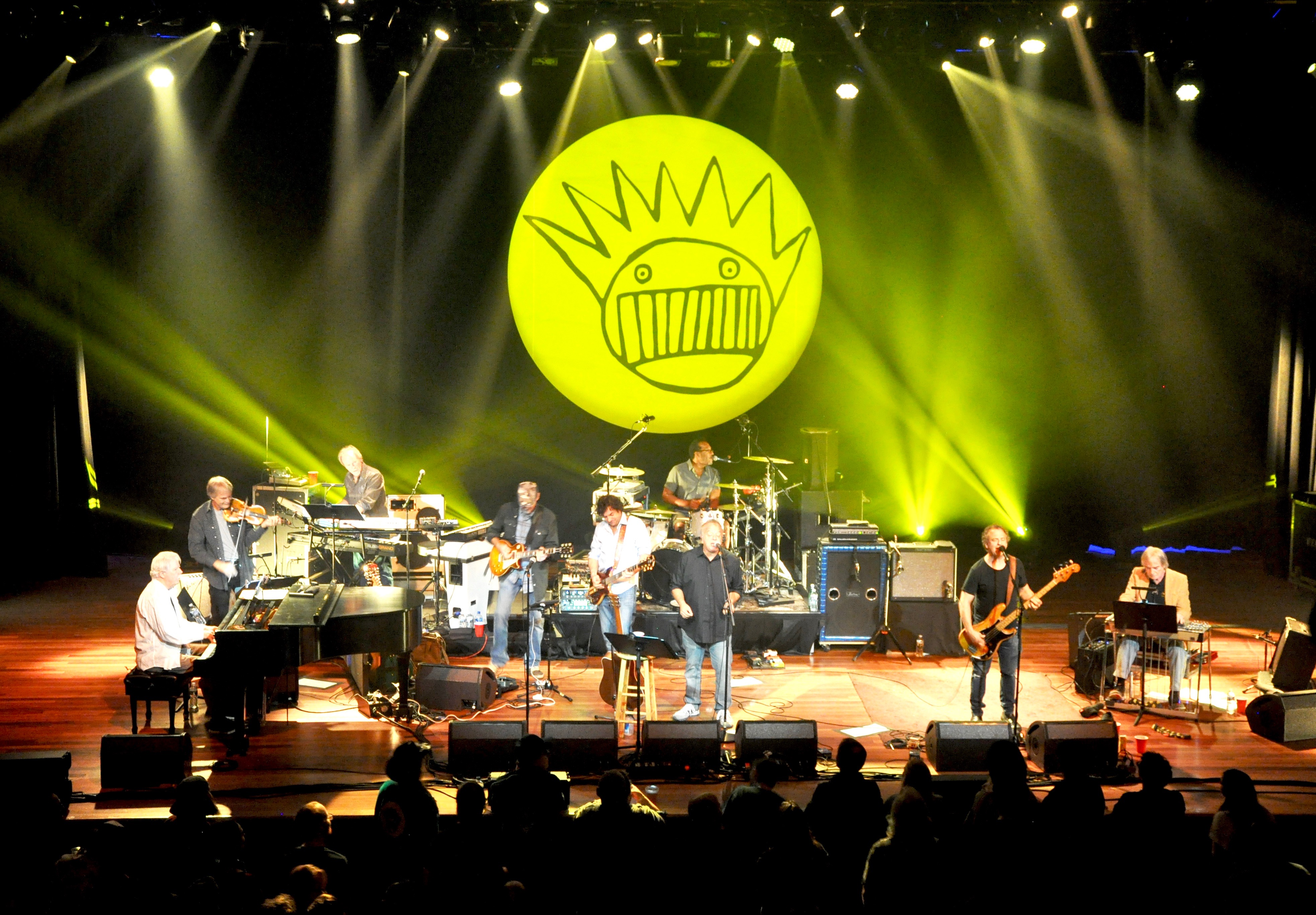 Ween at Ryman Auditorium, Nashville 10.16.2018